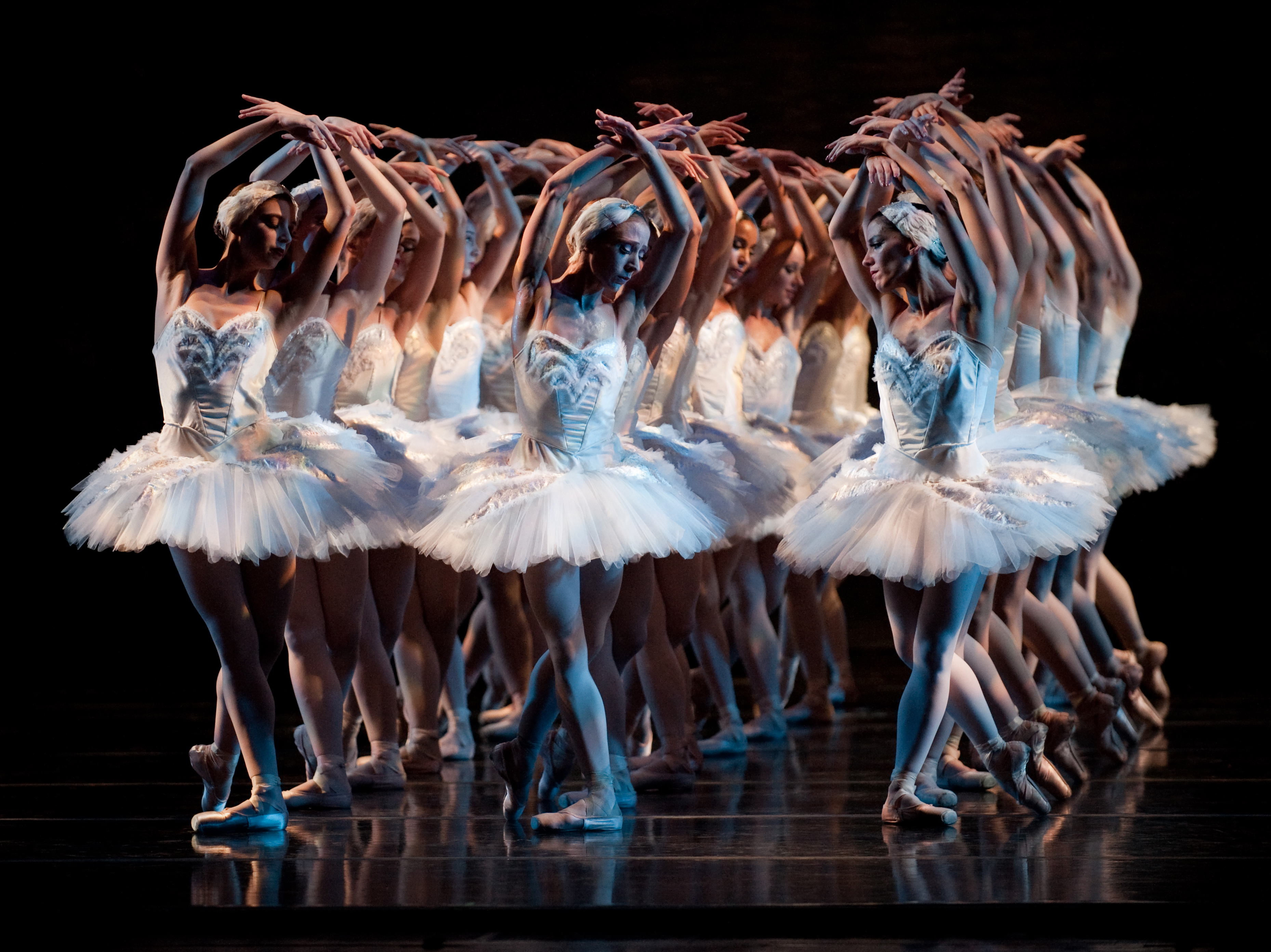 Swan Lake Photo Courtesy Cincinnati Ballet Photographer Peter Mueller